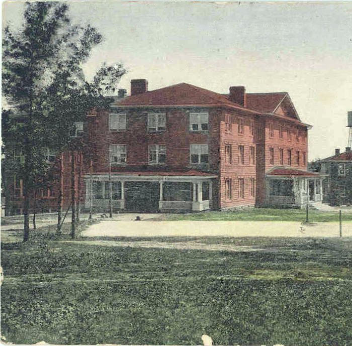 Woman's College, Due West (Abbeville, South Carolina) Postcard